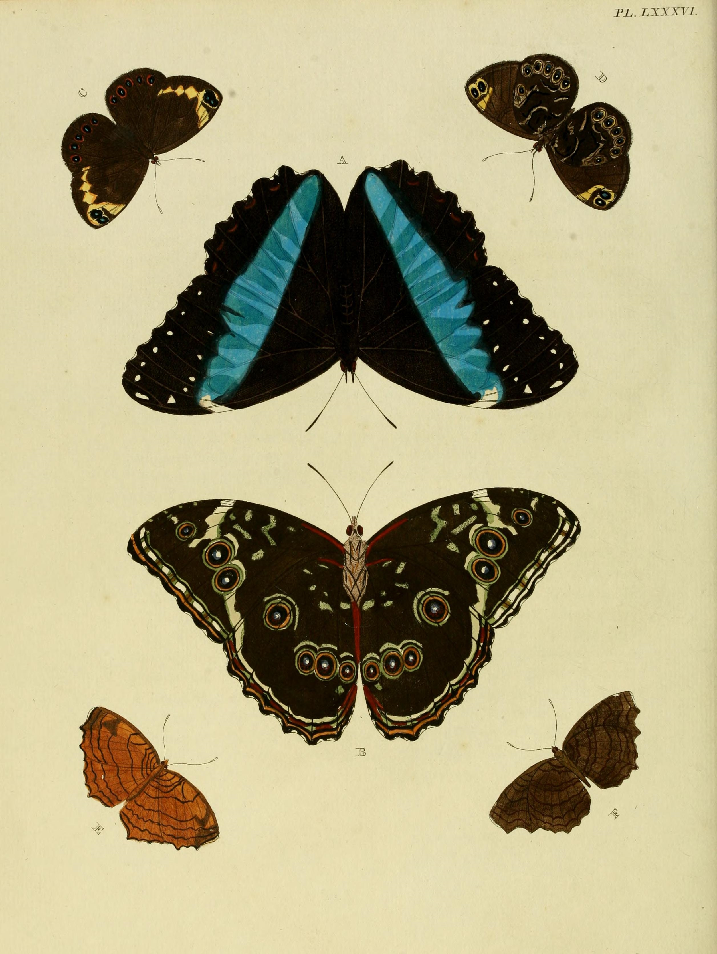 Plate LXXXVI A, B: "(Papilio) Helenor" ( = Morpho helenor, iconotype?), see Funet C, D: "(Papilio) Clytus" ( = Dira clytus), see Funet E, F: "(Papilio) Coryta" ( = Ariadne ariadne), see Funet